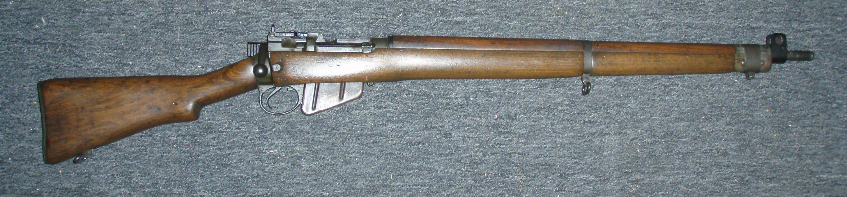 Lee-Enfield rifle No. 4 Mk I (Longbranch) in .303 British calibre